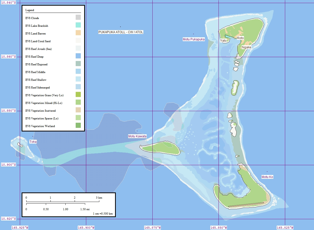 Map of Pukapuka Atoll, Cook Islands